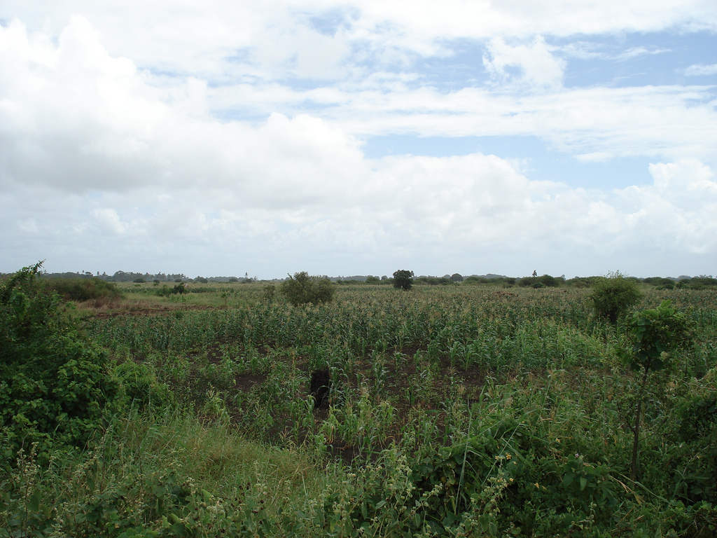 maize field near Jamaame, Somalia